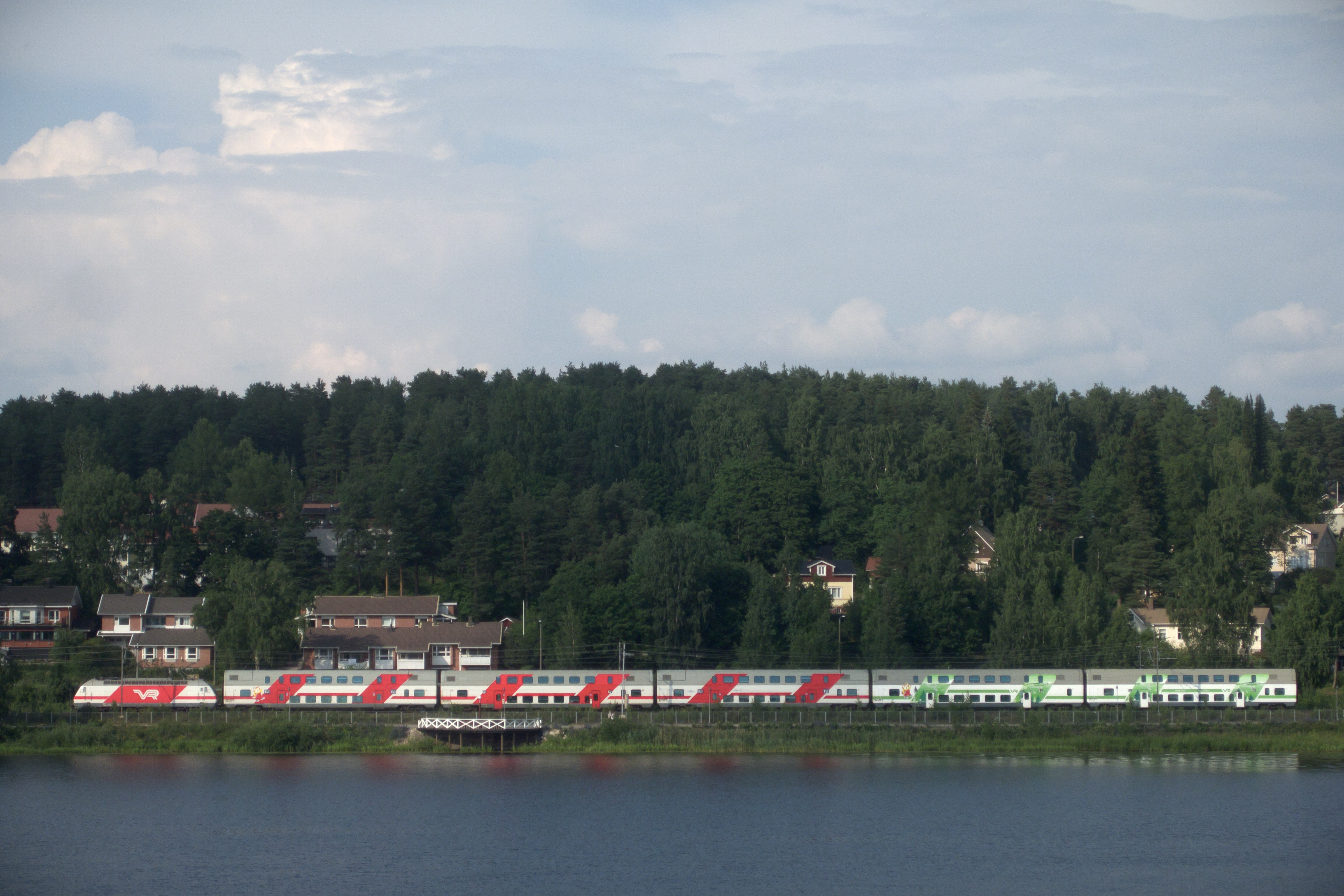 An InterCity 2 train leaves Hämeenlinna, Finland.